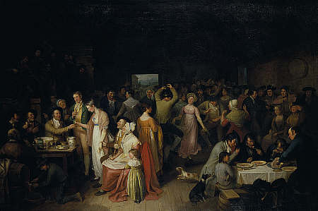 Penny Wedding by Alexander Carse 1819